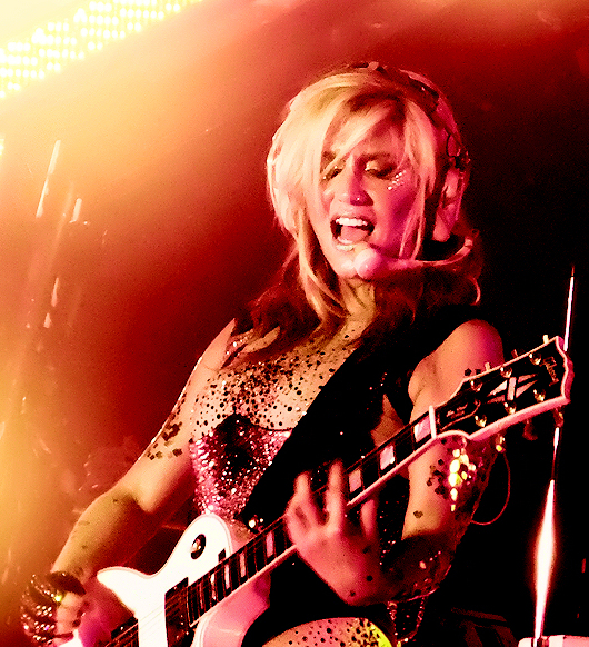 Kesha performing "Dirty Picture" at Kool Haus in Toronto, Ontario.